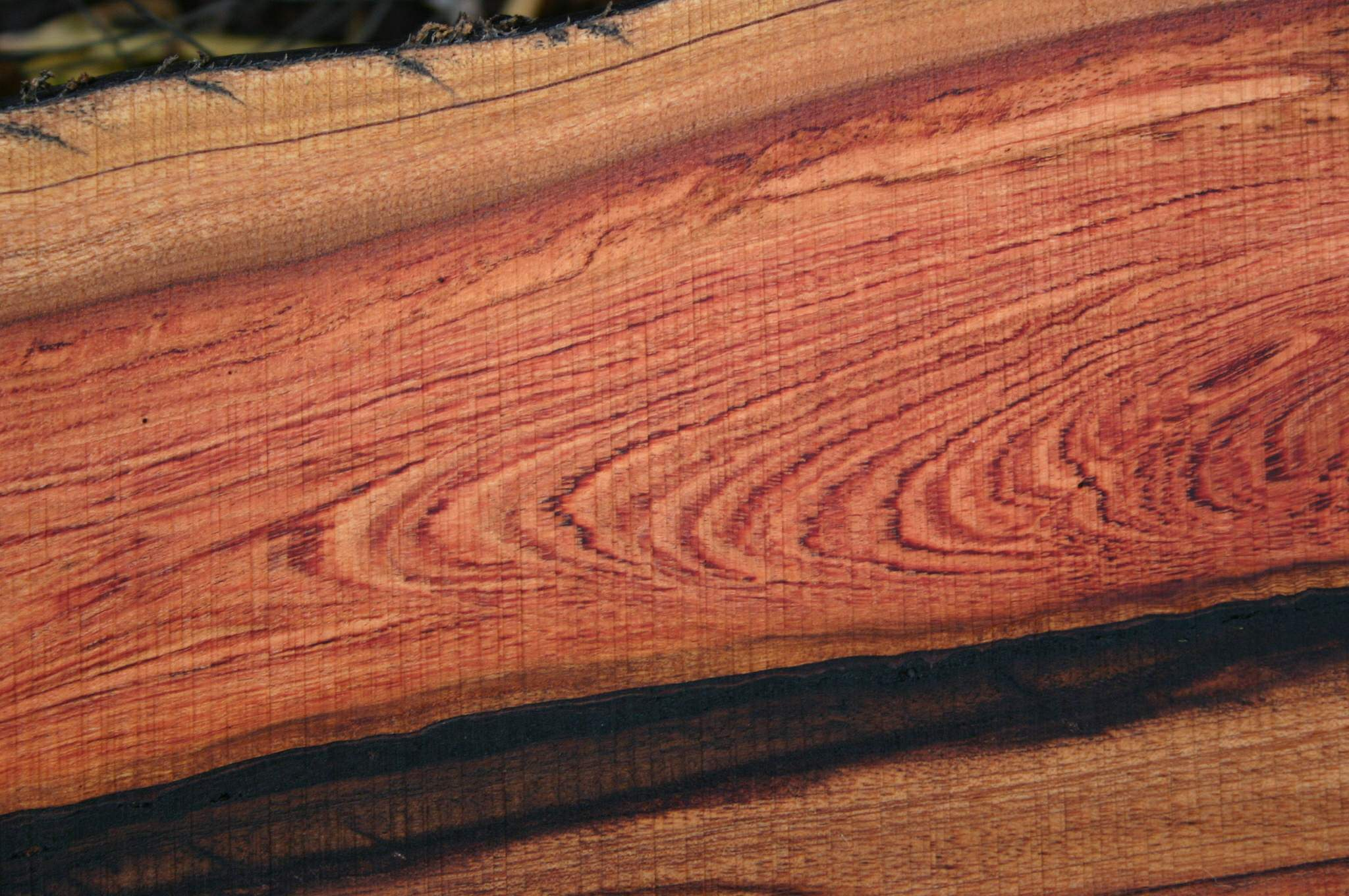 Timber of Guibourtia coleosperma (Benth.) J.Léonard - African Rosewood